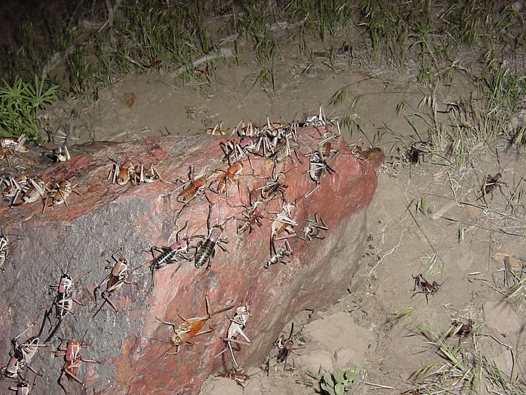 Mormon crickets in Nevada (May 2002). Night. For Wikipedia:en:Mormon_cricket.